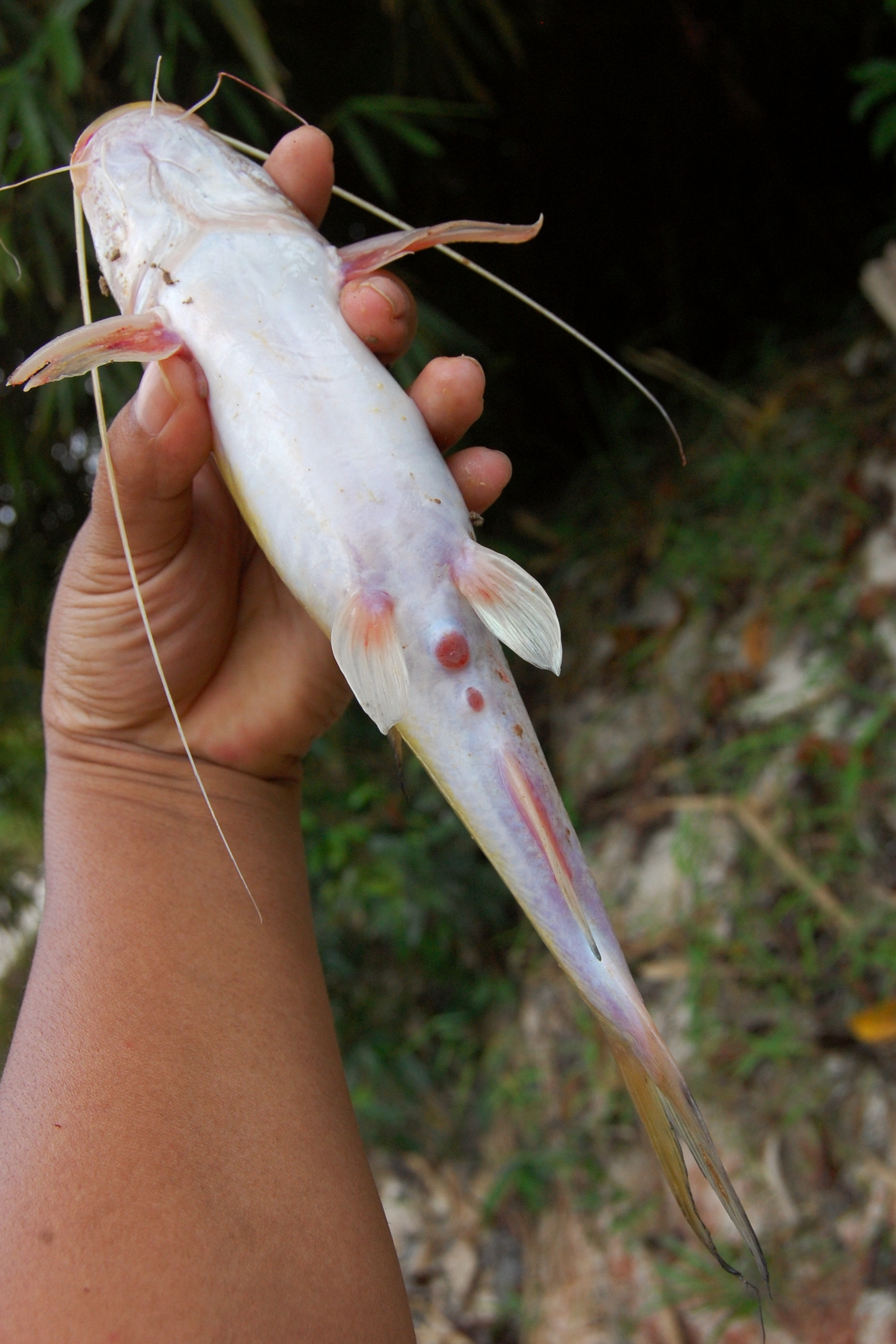 Hemibagrus capitulum, 205mm SL. Ventral side. From Upper Seruyan, Central Kalimantan, Indonesia.